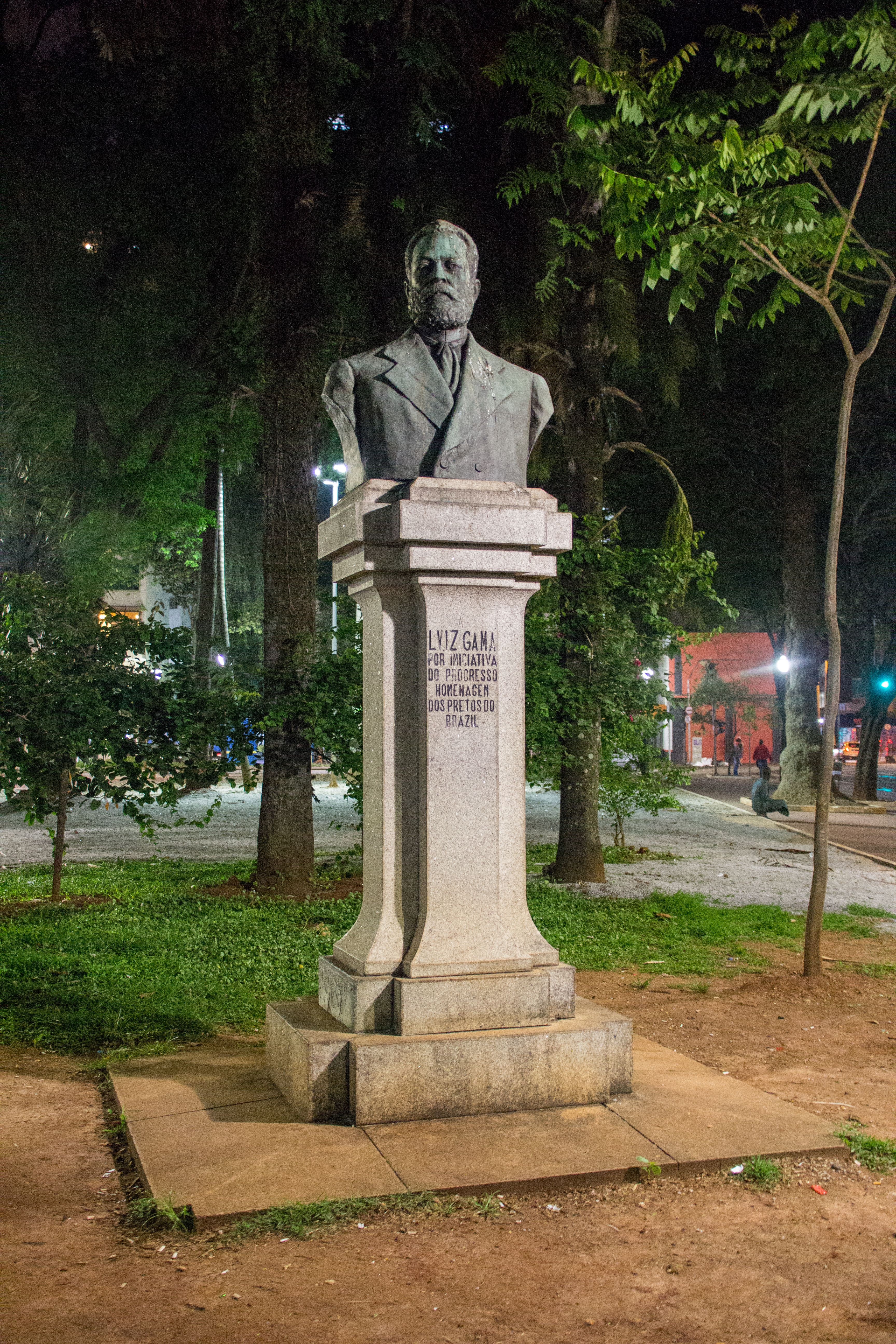 Night Walk, São Paulo, Brazil